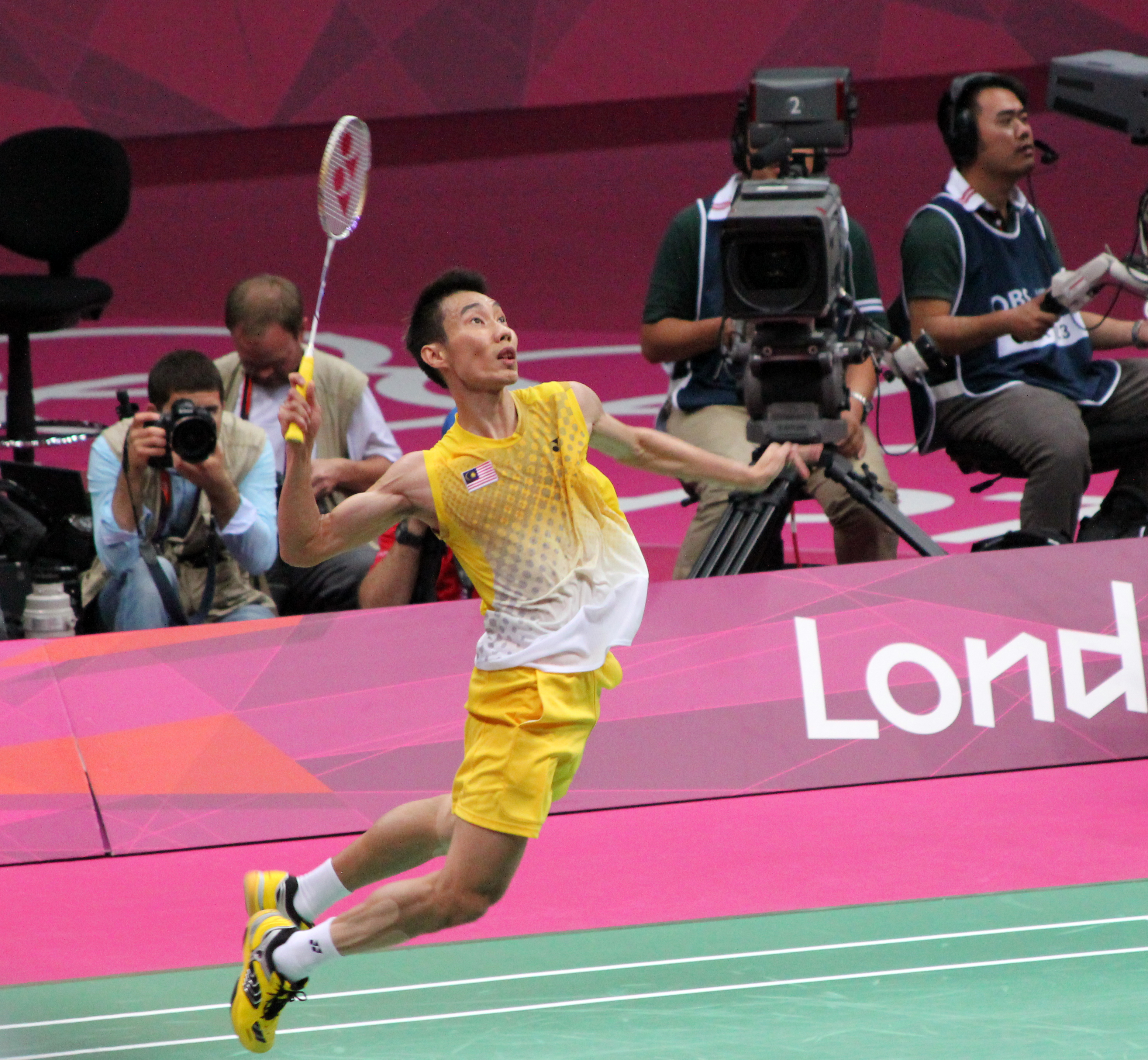 Mens badminton singles final between Lin Dan (China) and Lee Chong Wei (Malaysia) at the Wembley Arena, London 2012 Olympics